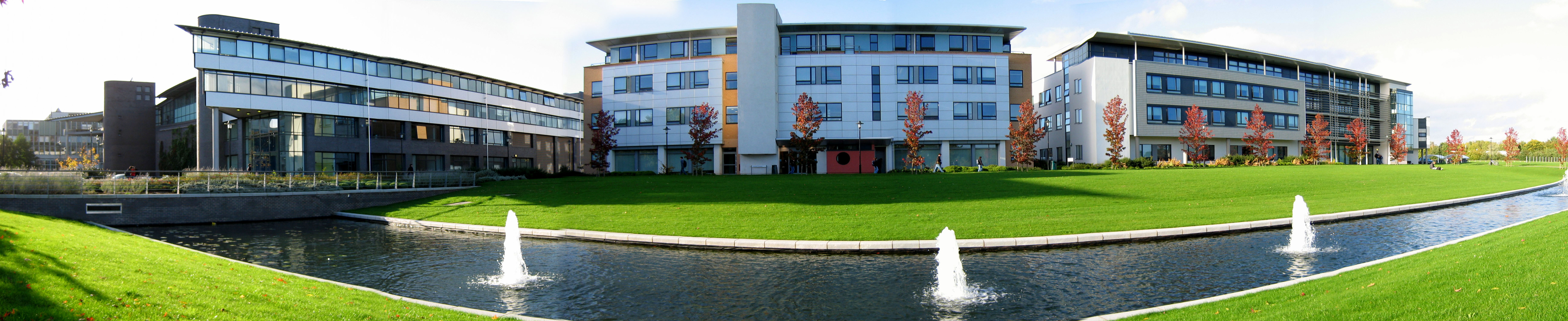 This shows three buildings on the University of Warwick campus; leftmost is the IMC (International Manufacturing Centre), middle is DCS (Department of Computer Science) and rightmost is Maths and Statistics.